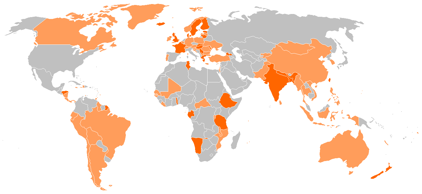 Map with all countries all over the world having had a female head of state or head of government (light orange) and with incumbent female HoSs/HoGs (2015) Umgefärbt von dieser Datei